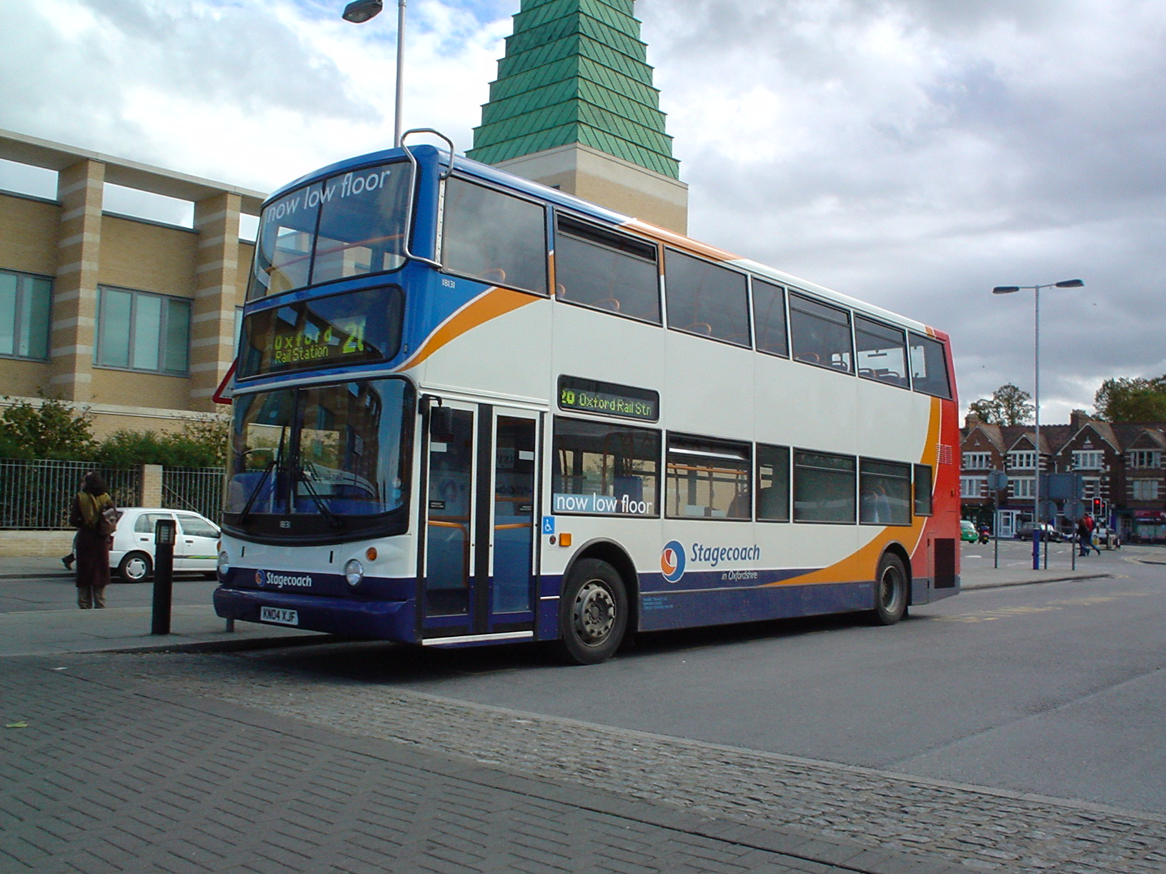 A Stagecoach in Oxfordshire bus on route 20 on the forecourt of Oxford railway station, Oxfordshire, with the Saïd Business School in the background. The bus is a Dennis Trident 2 with an Alexander ALX400 body, fleet number 18131, registration mark KN04 XJF